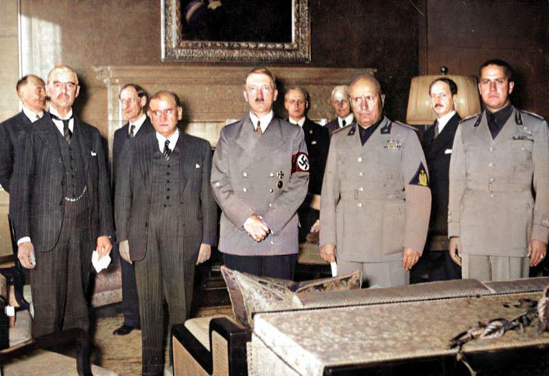 Colorized photo of state representatives at the international conference in Munich (1938).